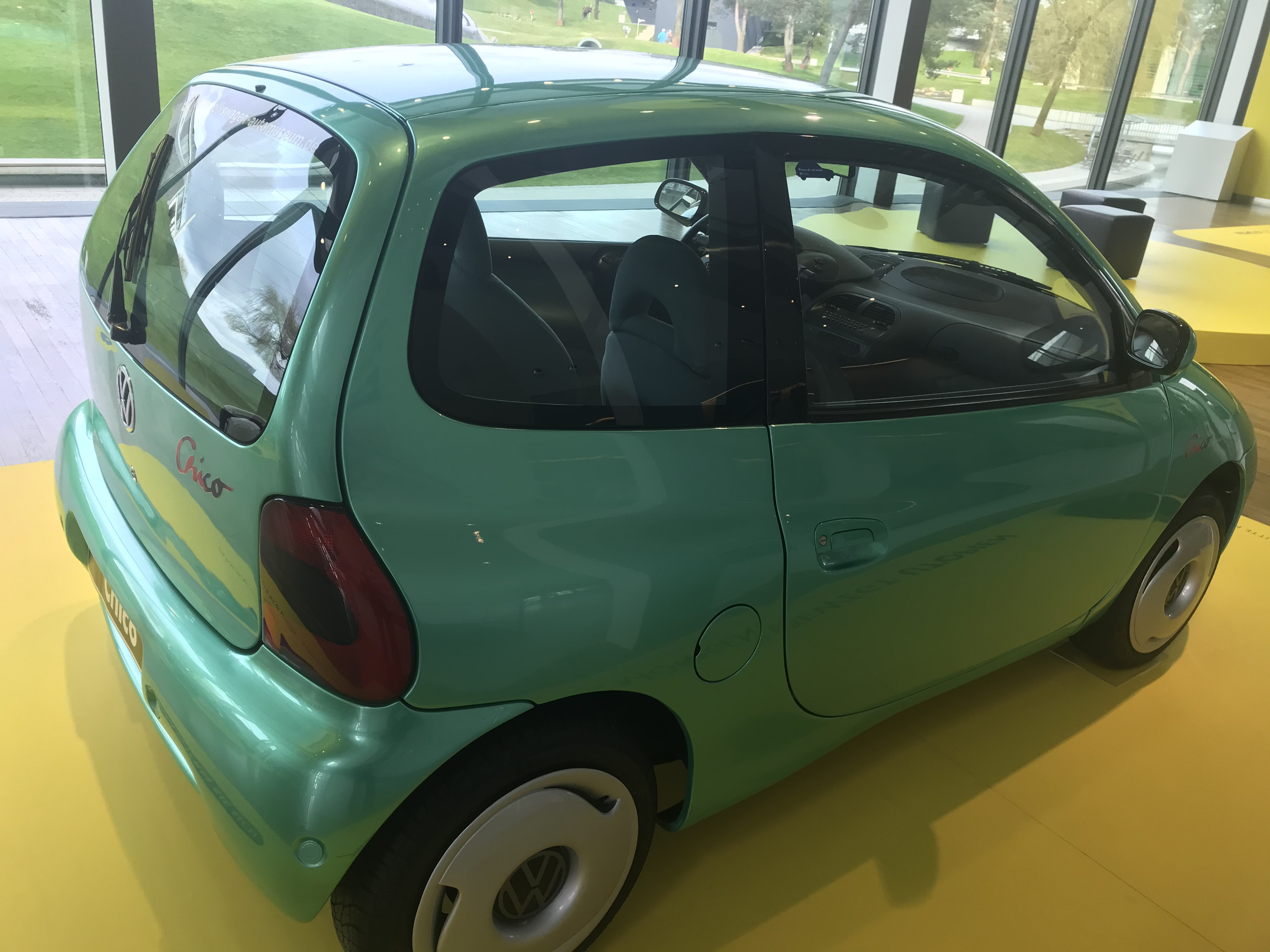 Exterrior of VW Chico